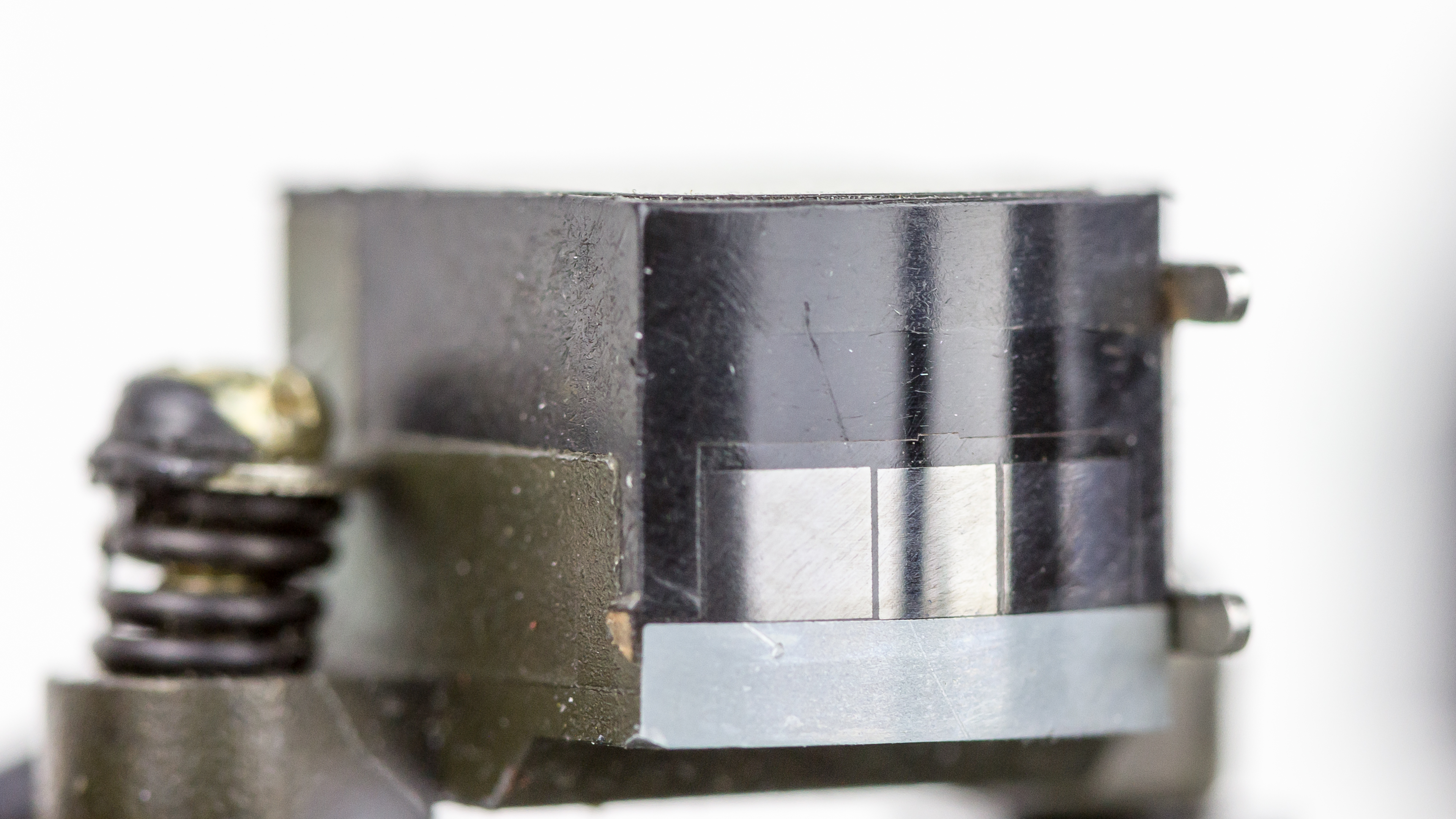 JVC KD-A22 - Erase head